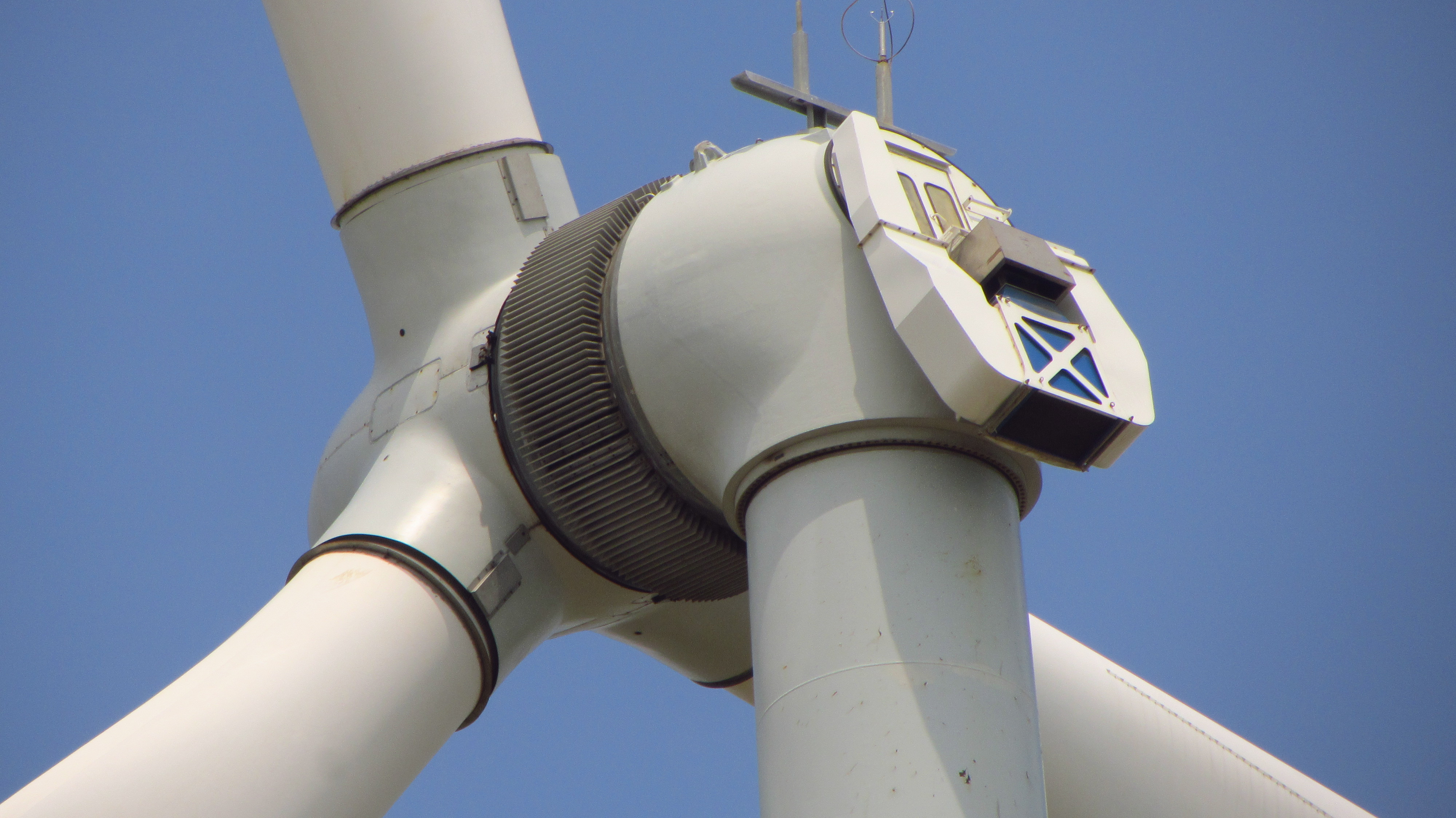 The nacelle of a Leitner Shriram LTW-77-1.5 wind turbine at the Uppudaluwa Wind Farm in the Puttalam District of Sri Lanka.